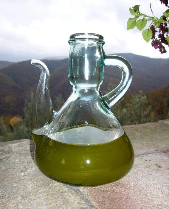 New olive oil, just pressed. It has a dense colour at first; later, it clarifies by decantation.